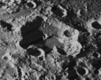 Oblique view of Avicenna crater, on the moon, facing south.